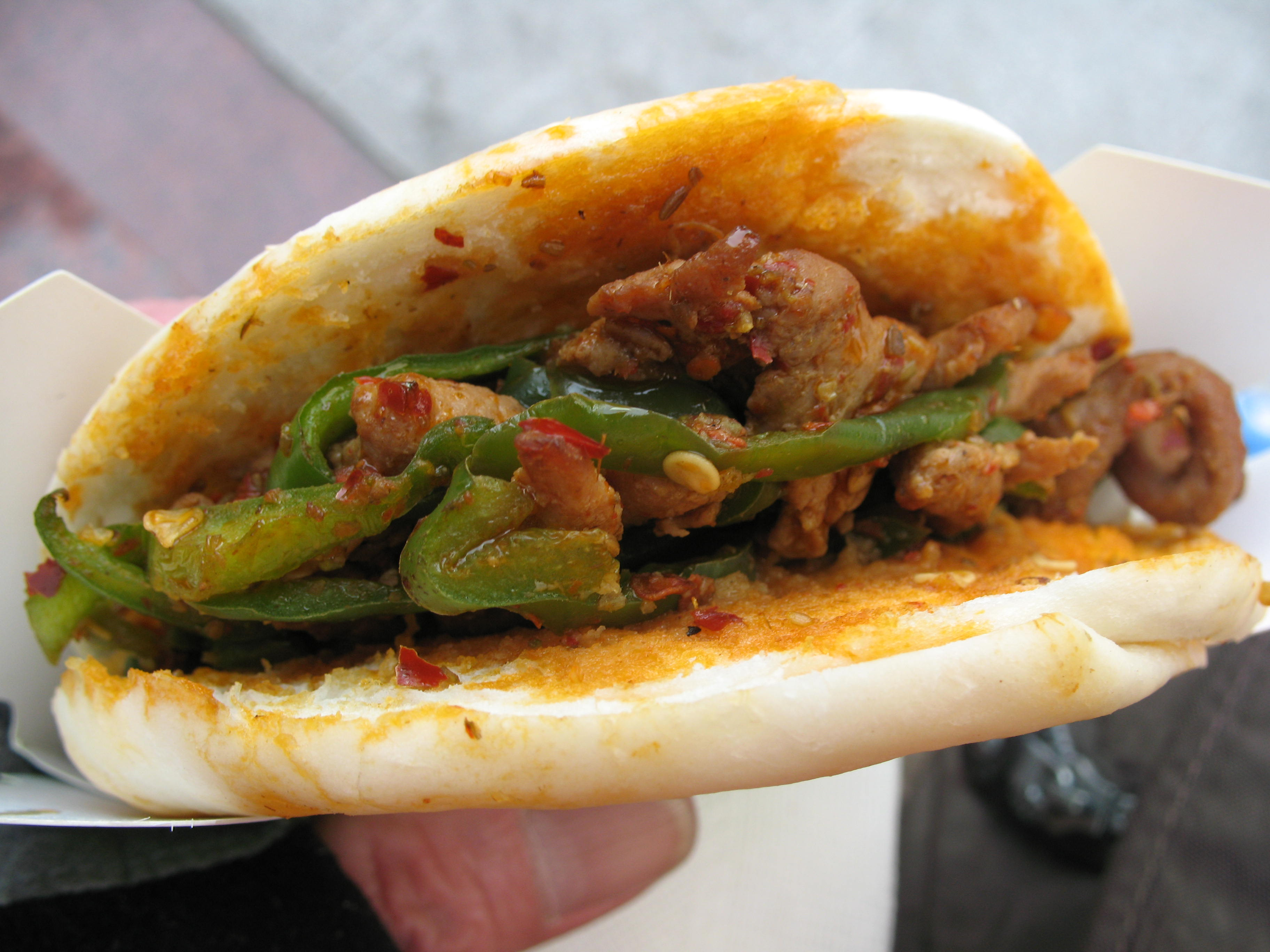 Chicken Roujiamo from Tianyaoqiao Lu